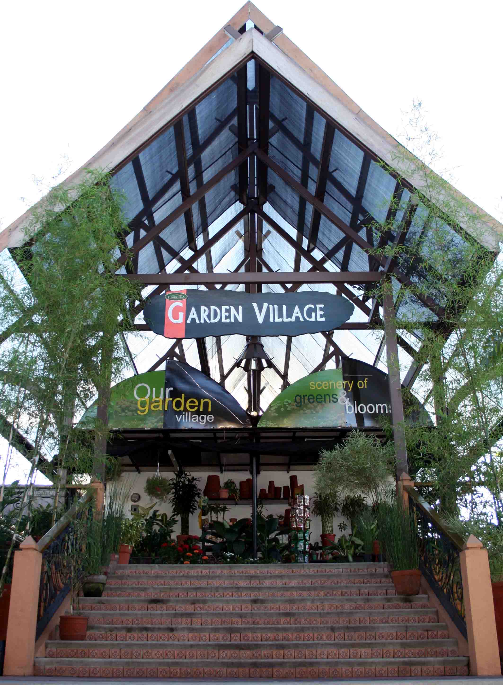 Picture of the Garden Village in Tiendesitas